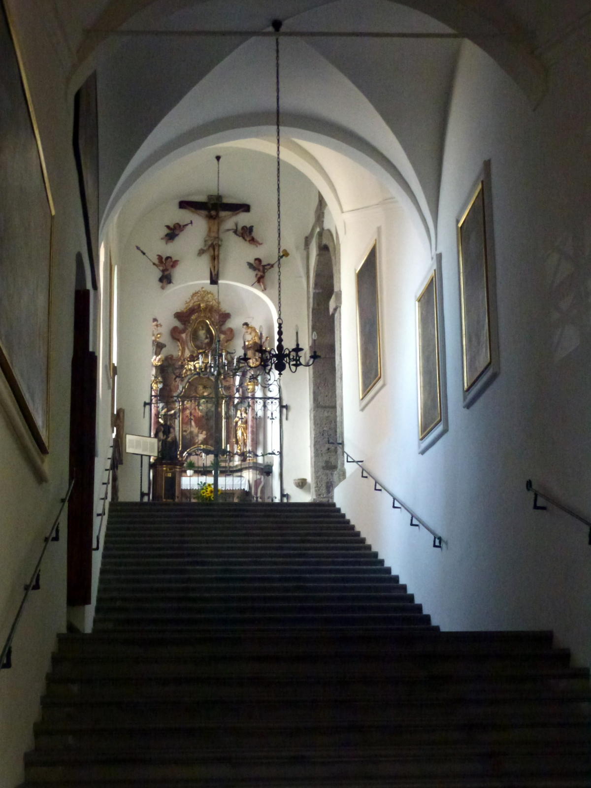 Stairway Müllner Kirche (Salzburg)